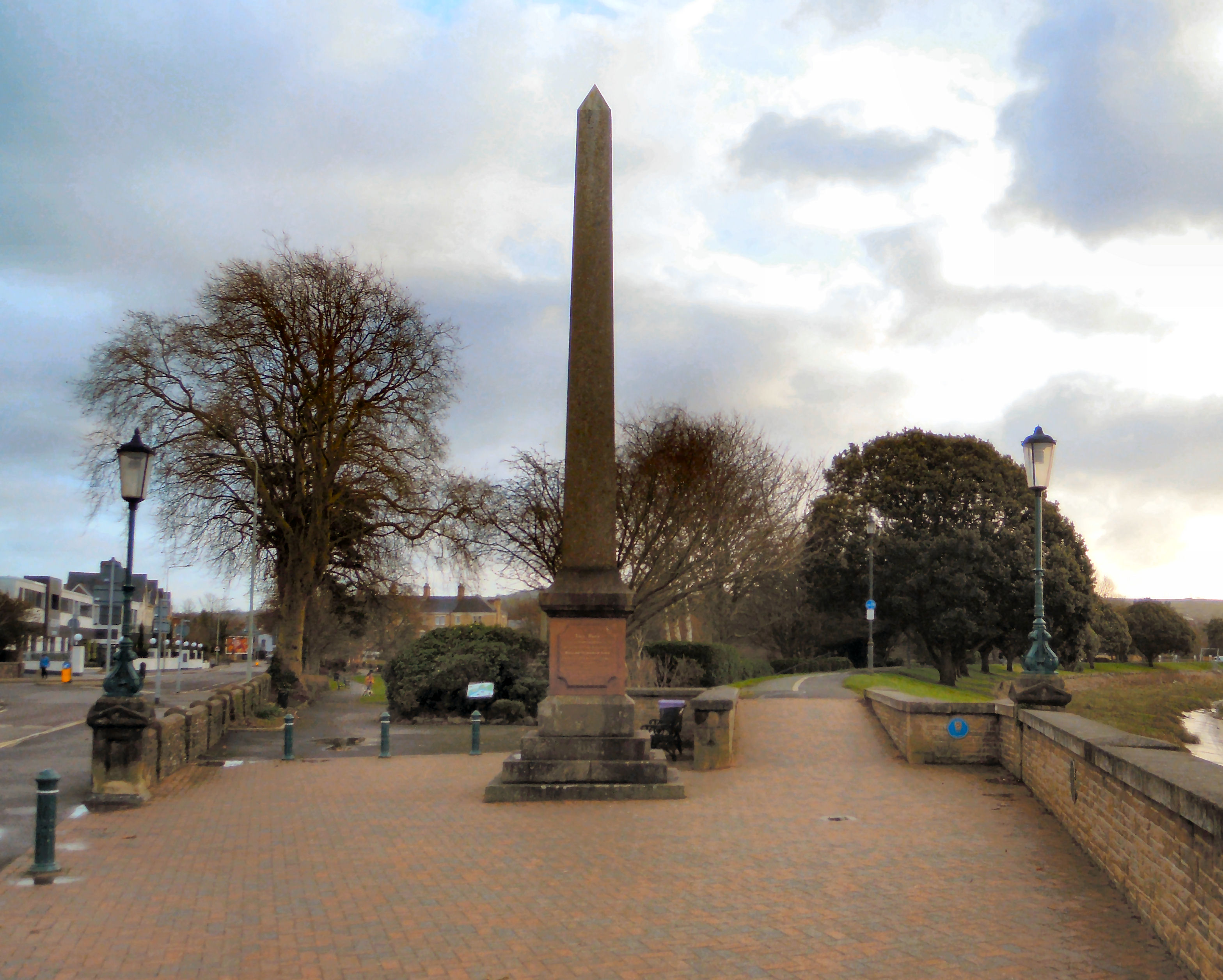 Obelisk in memory of William Frederick Rock at the entrance to Rock Park in Barnstaple in Devon